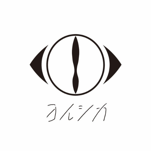 Yorushika's (ヨルシカ) Logo